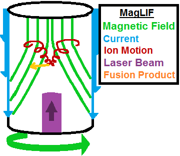 This is a more accurate picture of the MagLIF concept. It is a combination of a Z-Pinch and a laser beam. This is carried out at SNL Z pulsed power facility. The ions spiral together under the influence of a Lorentz force. They are pushed forward in a "snowplow" effect described by Dr. Marshall Rosenbluth. Other information This is a more accurate picture of the MagLIF concept. It is a combination of a Z-Pinch and a laser beam. This is carried out at SNL Z pulsed power facility. The ions spiral together under the influence of a Lorentz force. They are pushed forward in a "snowplow" effect described by Dr. Marshall Rosenbluth.